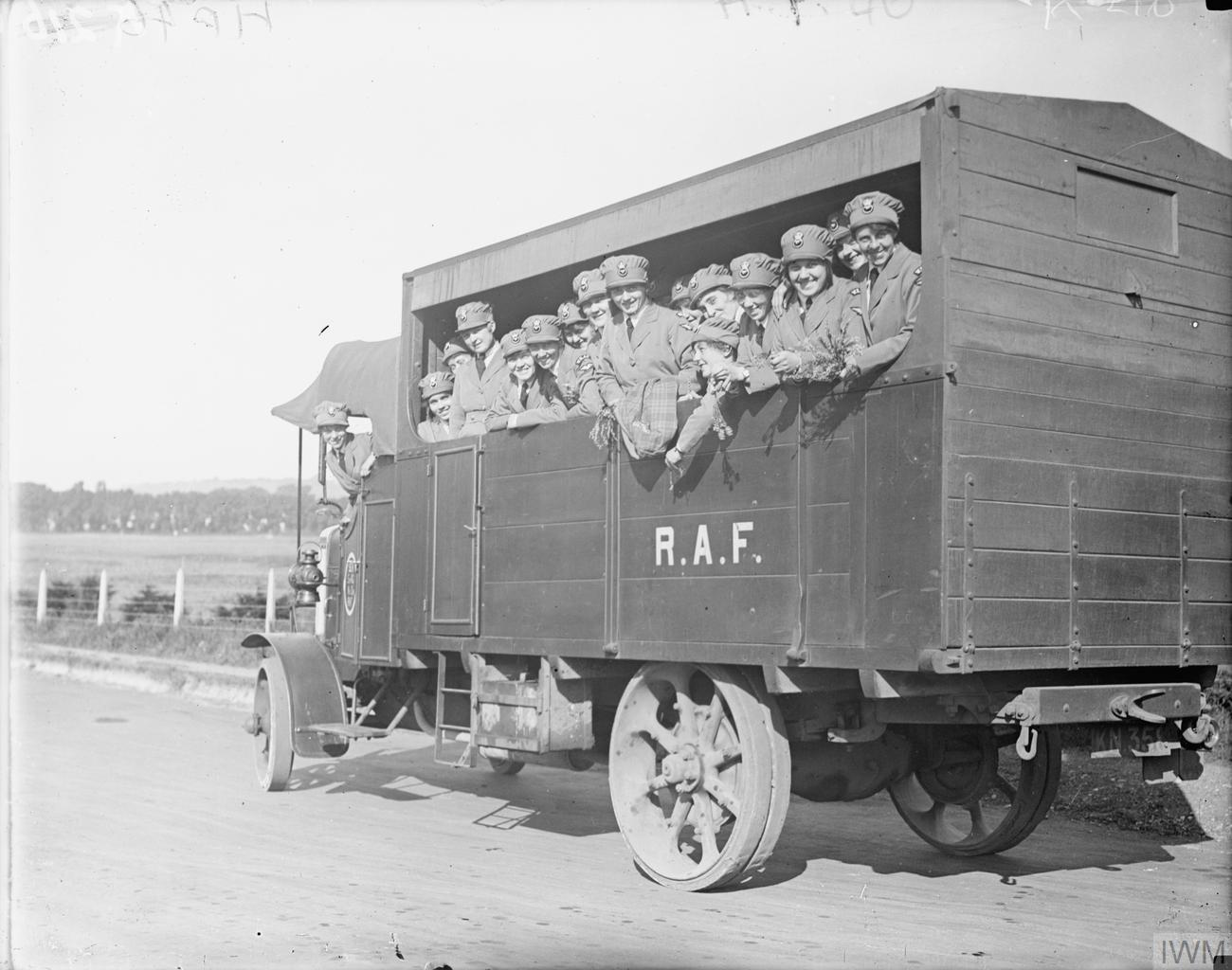 The Women's Royal Air Force during the First World War Members of the Women's Royal Air Force (WRAF) on board an RAF lorry circa 1918.